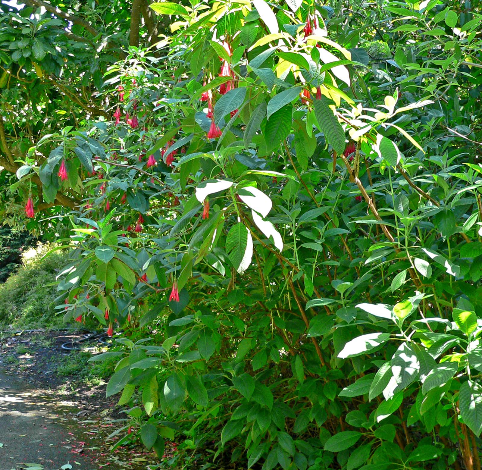 Photo of Fuchsia corymbiflora (syn. Fuchsia boliviana) at the San Francisco Botanical Garden